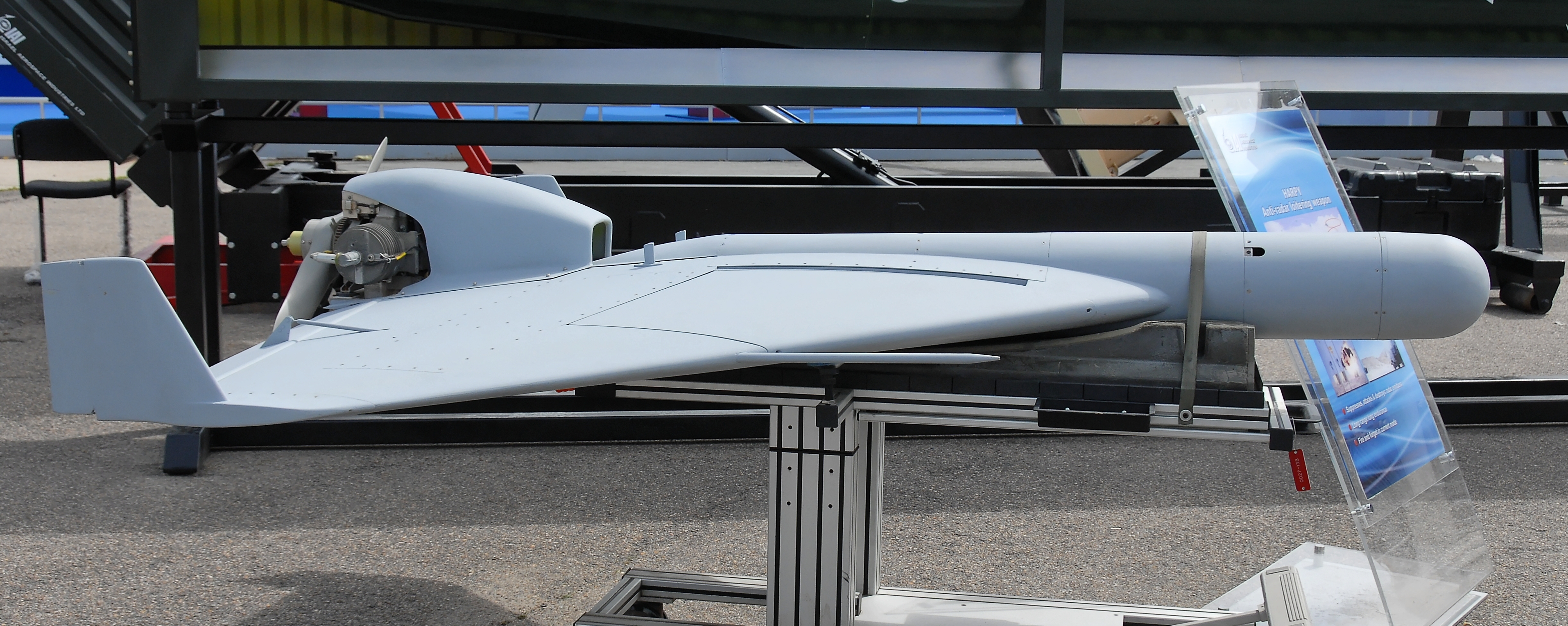 An IAI Harpy antiradar loitering weapon at the 2007 International Paris Air Show at the Le Bourget airport.